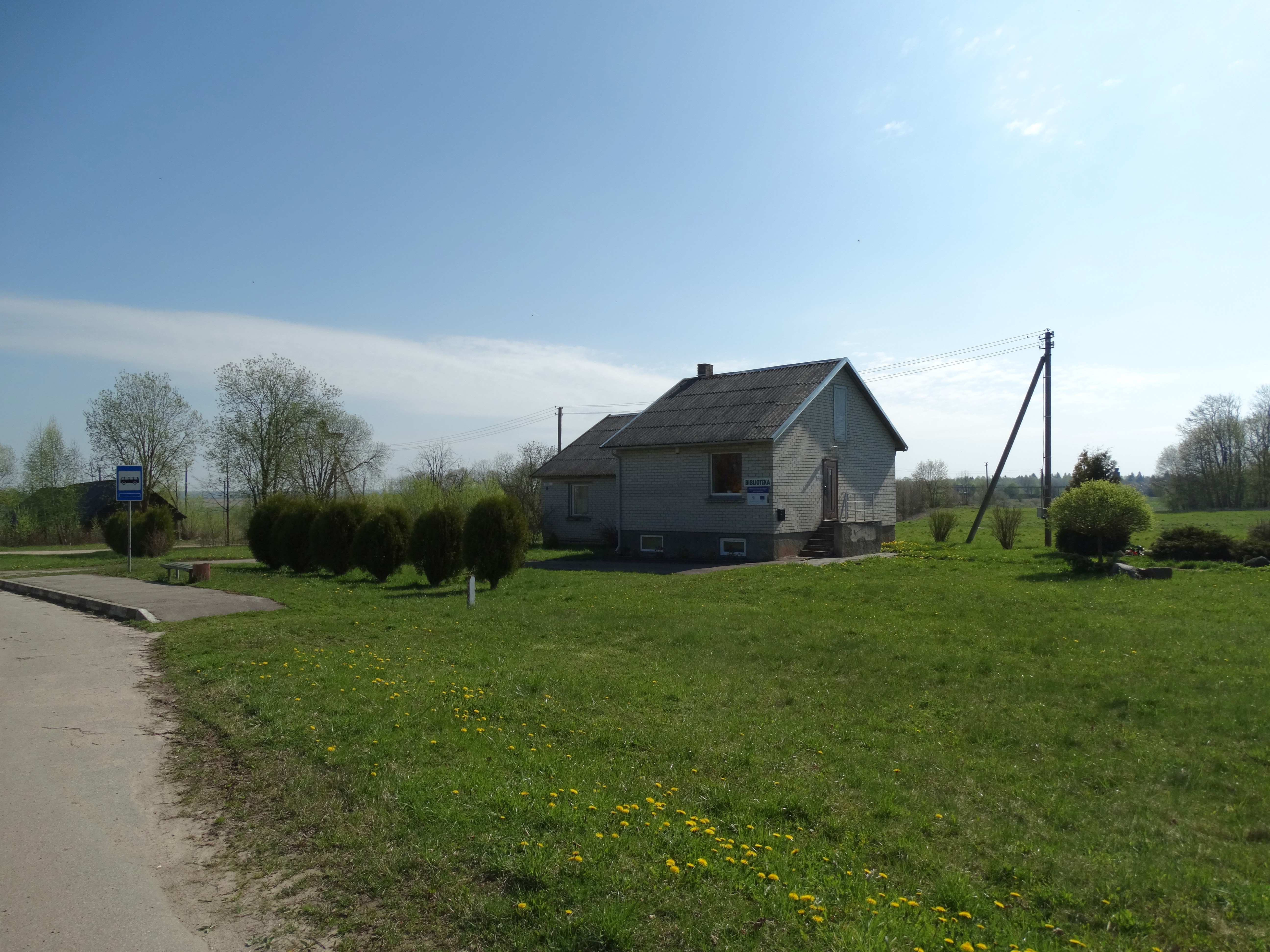 Mikalaučiškės, Kaišiadorys District, Lithuania